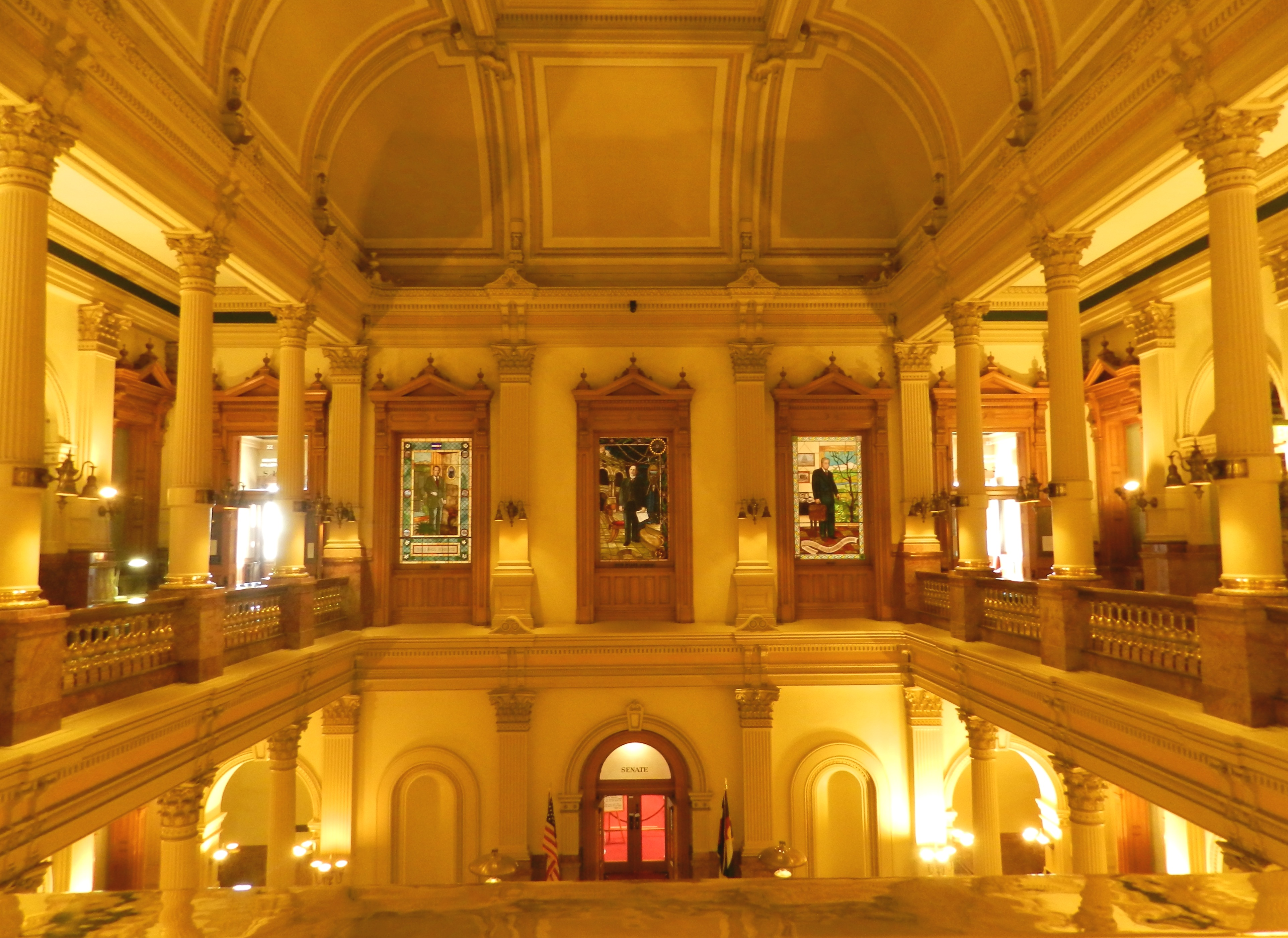 Learn more at